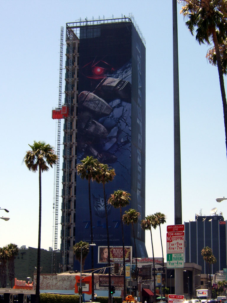 The old 360 building in the corner of Sunset Blvd. and Vine Street draped in canvas designed to promote the 2007 film Transformers.